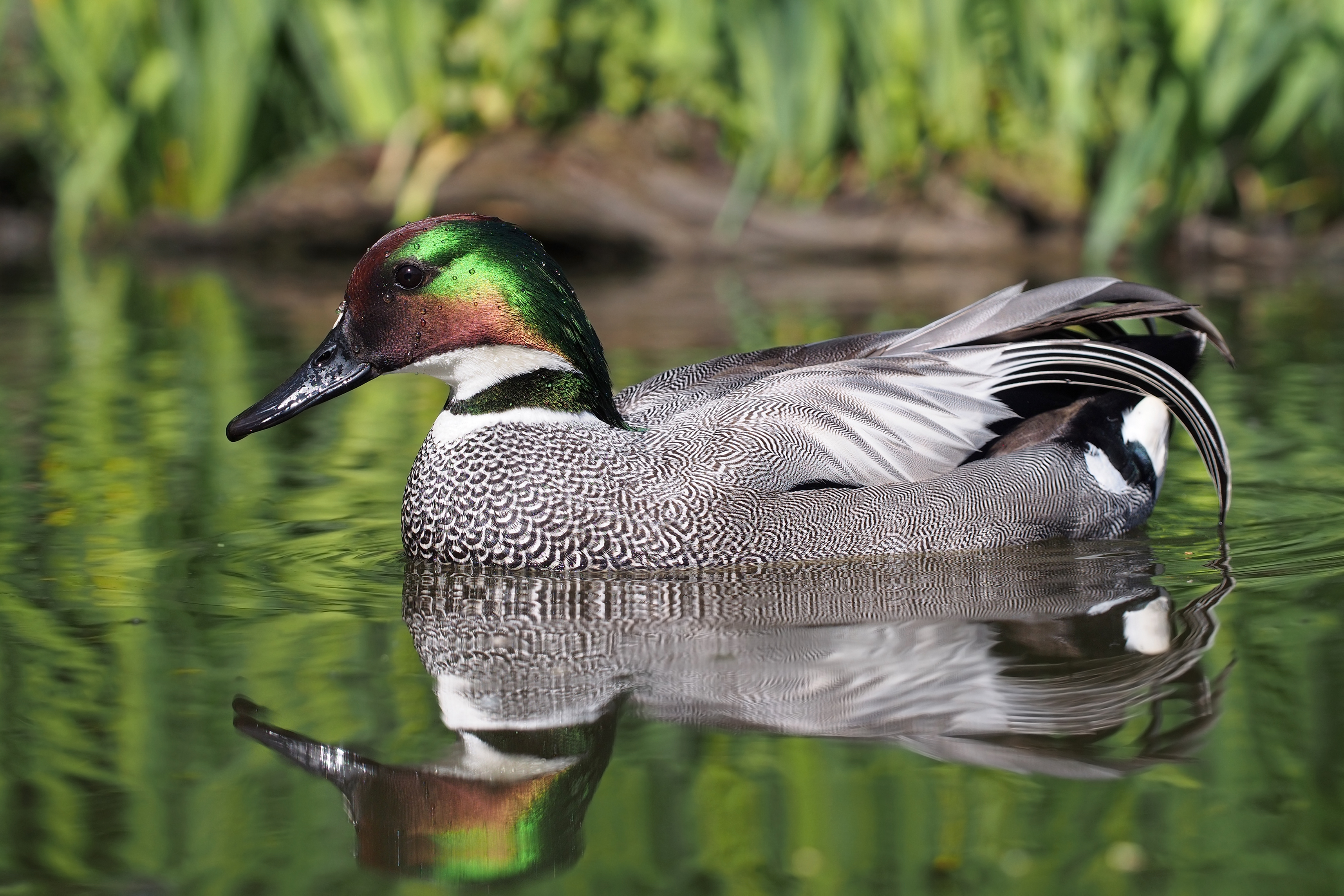 Falcated duck, Anas falcata, at Martin Mere, UK